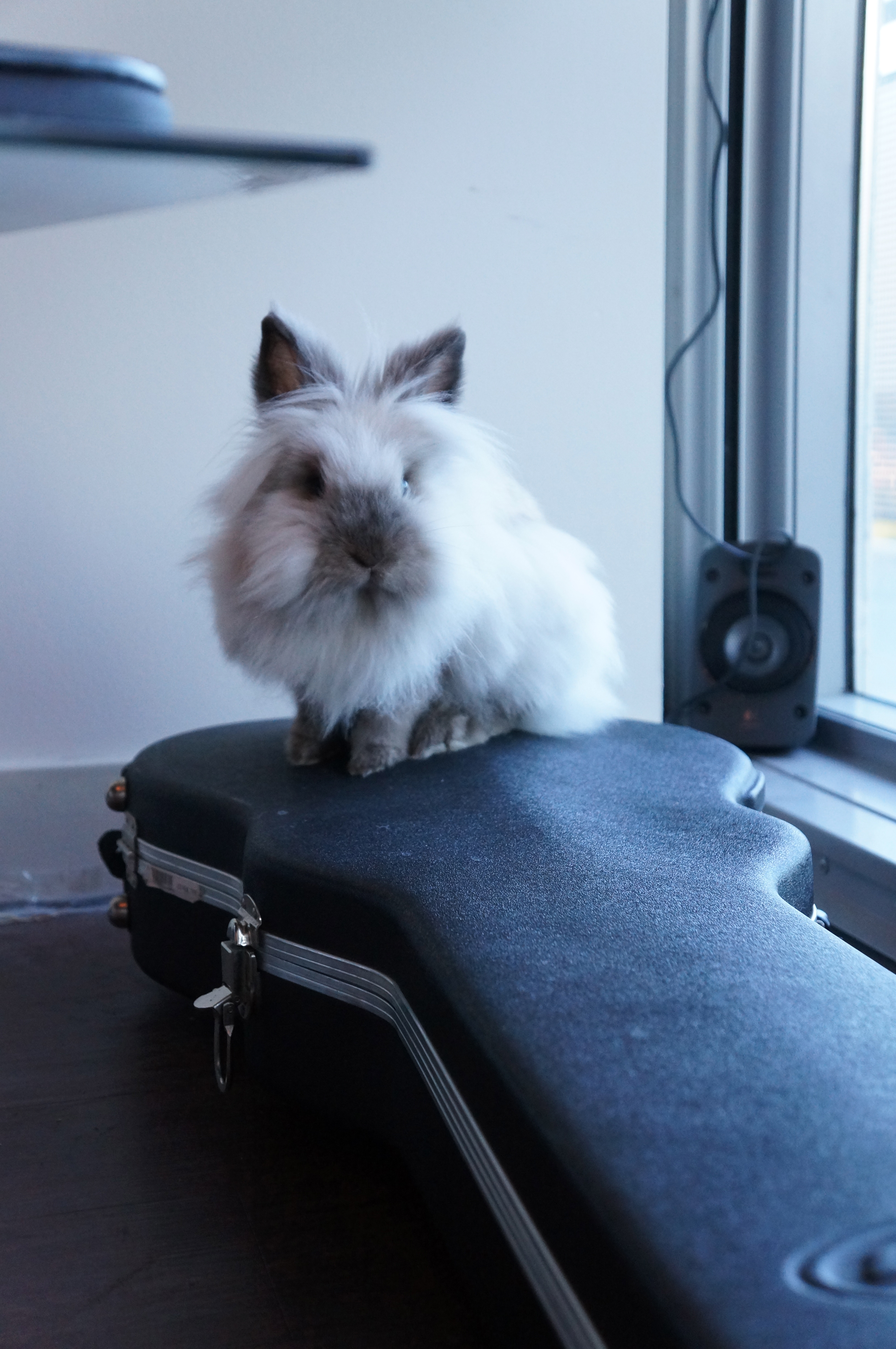 Dobby, a sable point double mane lionhead rabbit